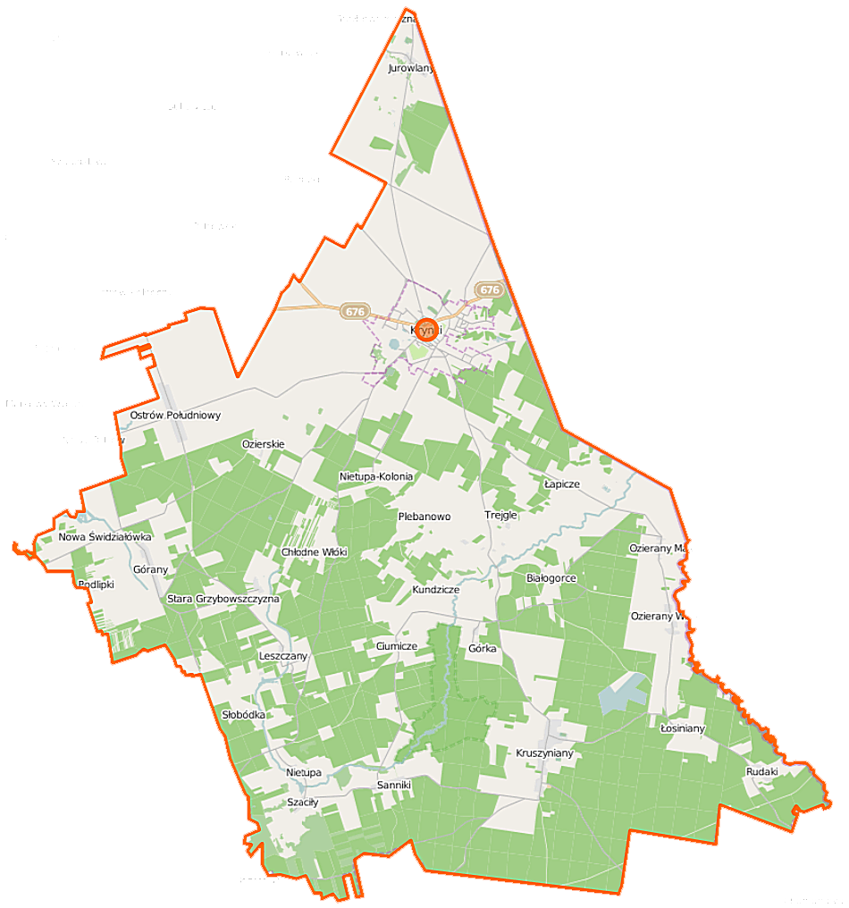 Map of Gmina Krynki, Poland This map of Krynki (gmina) was created from OpenStreetMap project data, collected by the community. This map may be incomplete, and may contain errors. Don't rely solely on it for navigation. Border coordinates53.331723.6282←↕→23.916553.1468